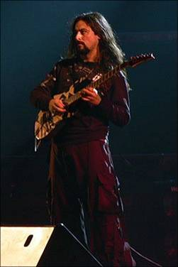 Pablo García performing live in Atalaya Rock Festival in Spain, 2007.